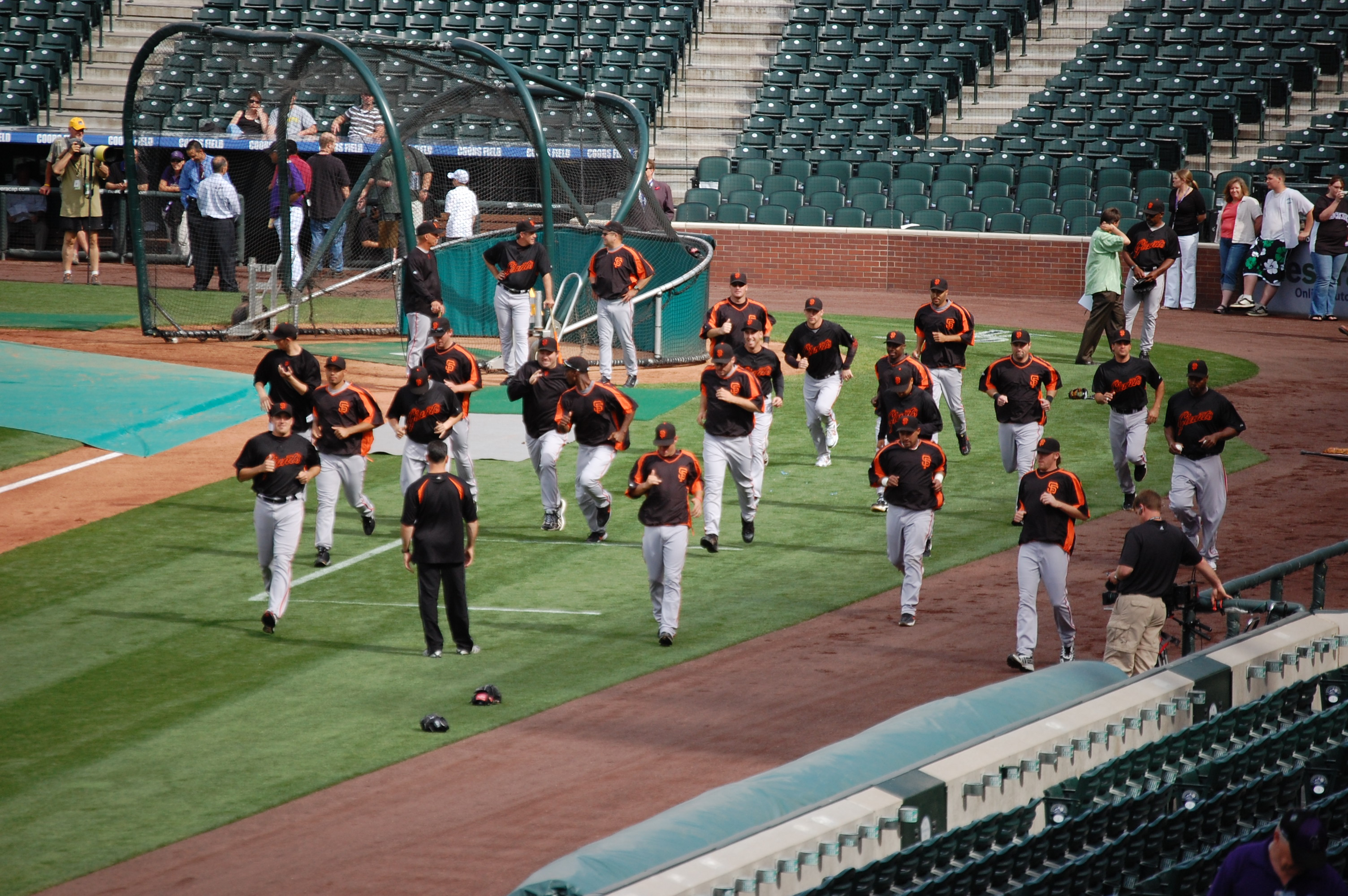 my own shot; release under gfdl 20:05, 13 May 2007 . . Onetwo1 . . 3008×2000 (1.42 MB)